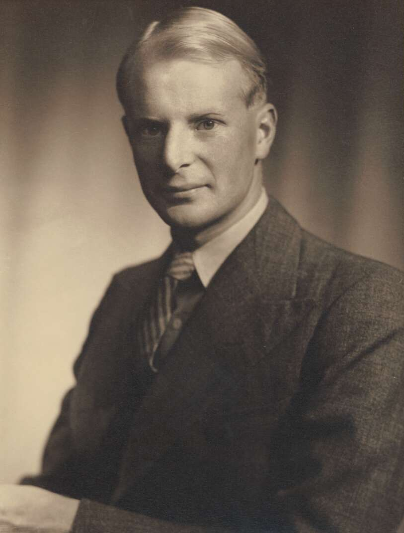 Portrait of Peter Hamilton Bailey